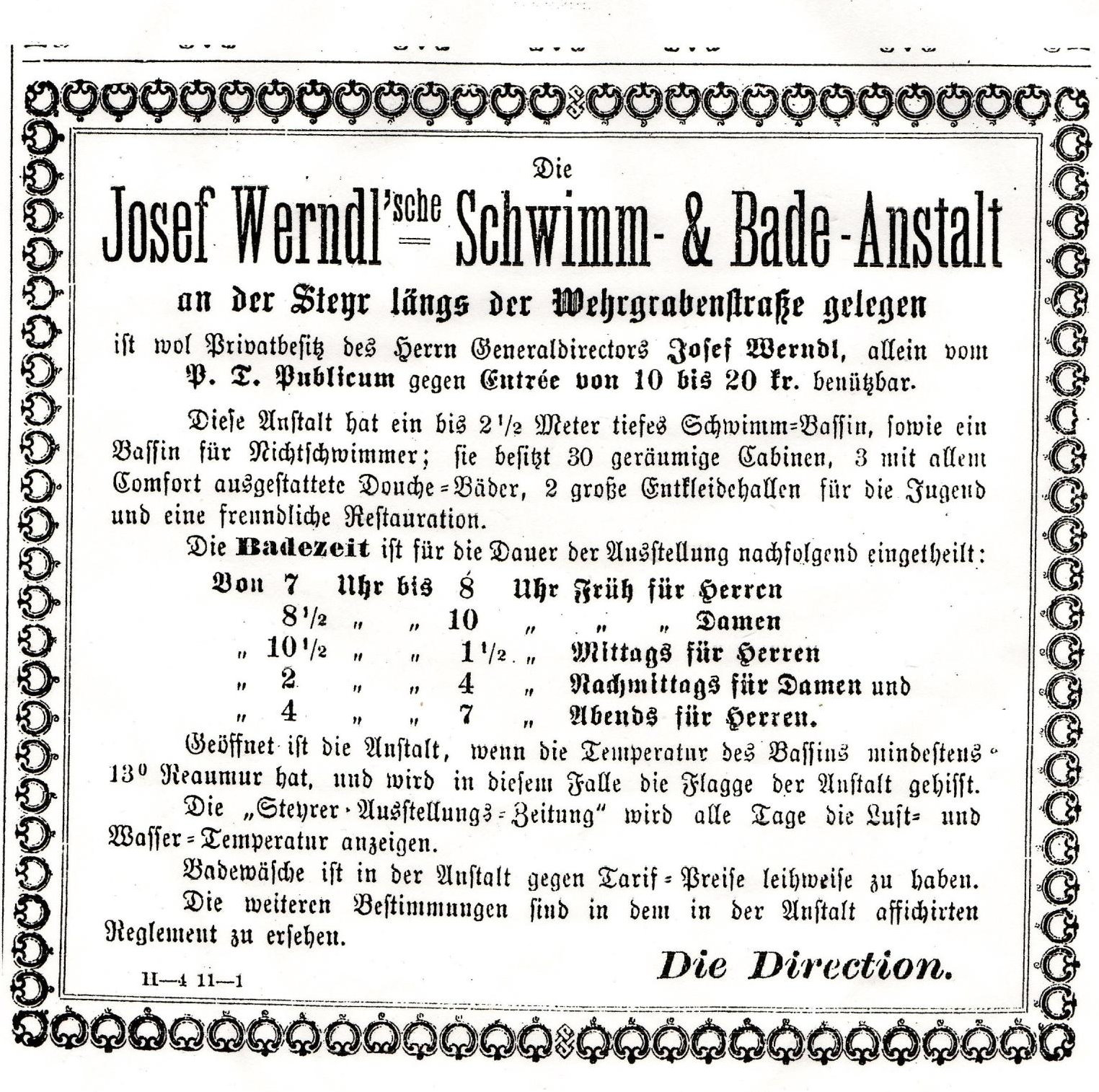 The historical list of prices of the year 1884